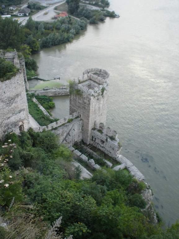 View of Zadnji grad(Rear town).